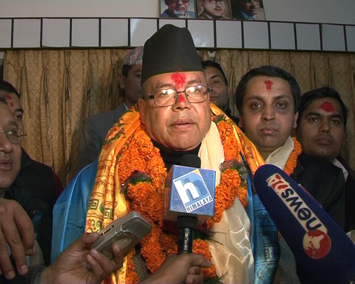 JN after becoming PM of Nepal